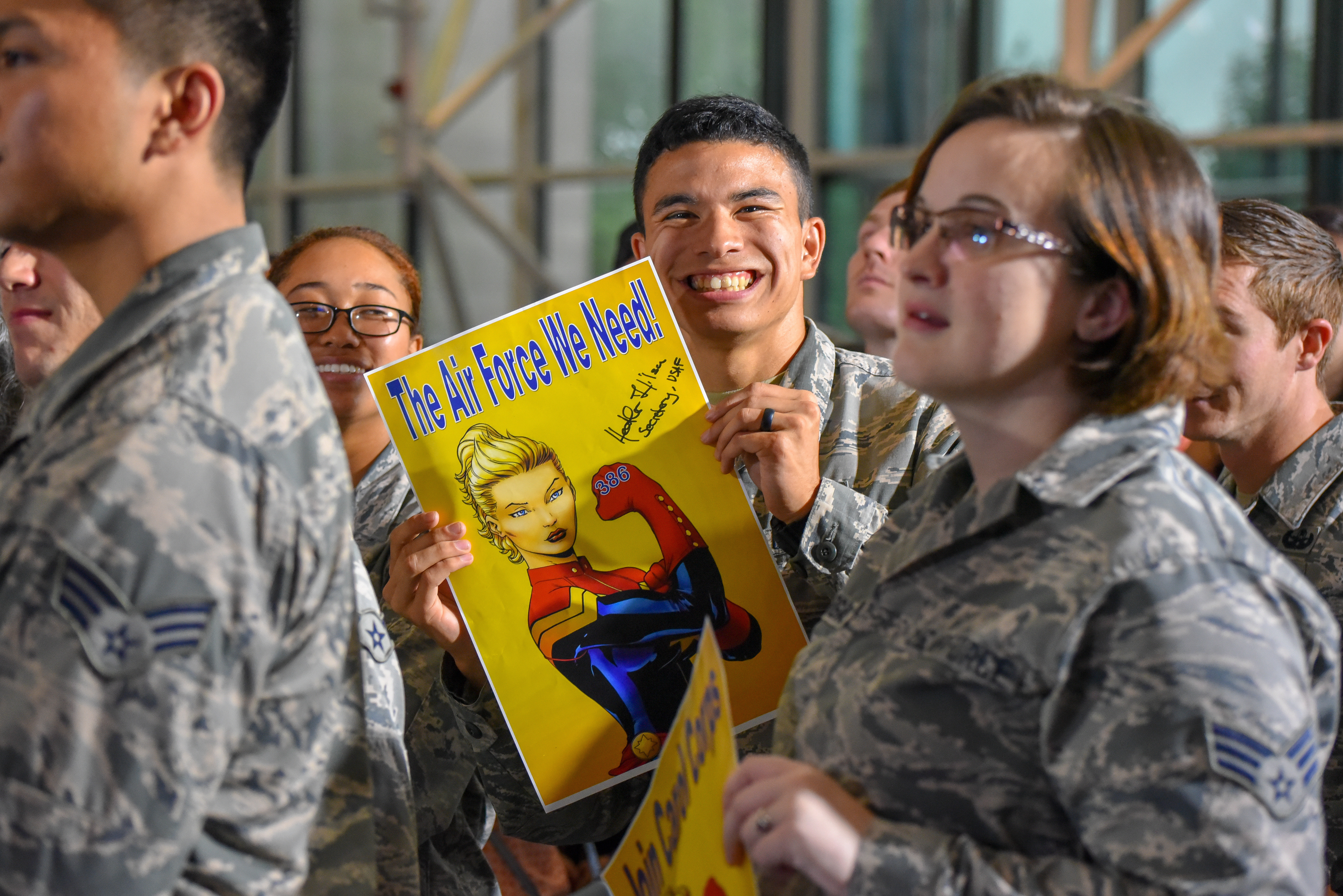 Air Force District of Washington Airmen celebrated the Air Force’s 71st birthday by attending a special screening of the Captain Marvel trailer at the National Air and Space Museum, Smithsonian Institution, hosted by Good Morning America Sept. 18, 2018. As the first female character to headline a Marvel franchise, Capt. Carol Danvers (actress Brie Larson) exemplifies the barrier-breaking spirit found in every generation of Airmen going back to 1947. (U.S. Air Force photo by 2nd Lt Jessica Cicchetto)